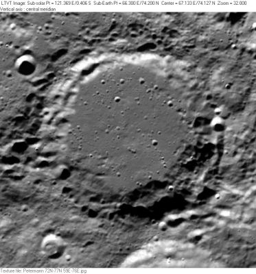 The 8-km diameter circular crater in the upper right is Petermann S. The 11-km one in the lower left is Petermann B. The bright arch along the lower margin is the north rim of the neighboring crater Cusanus.